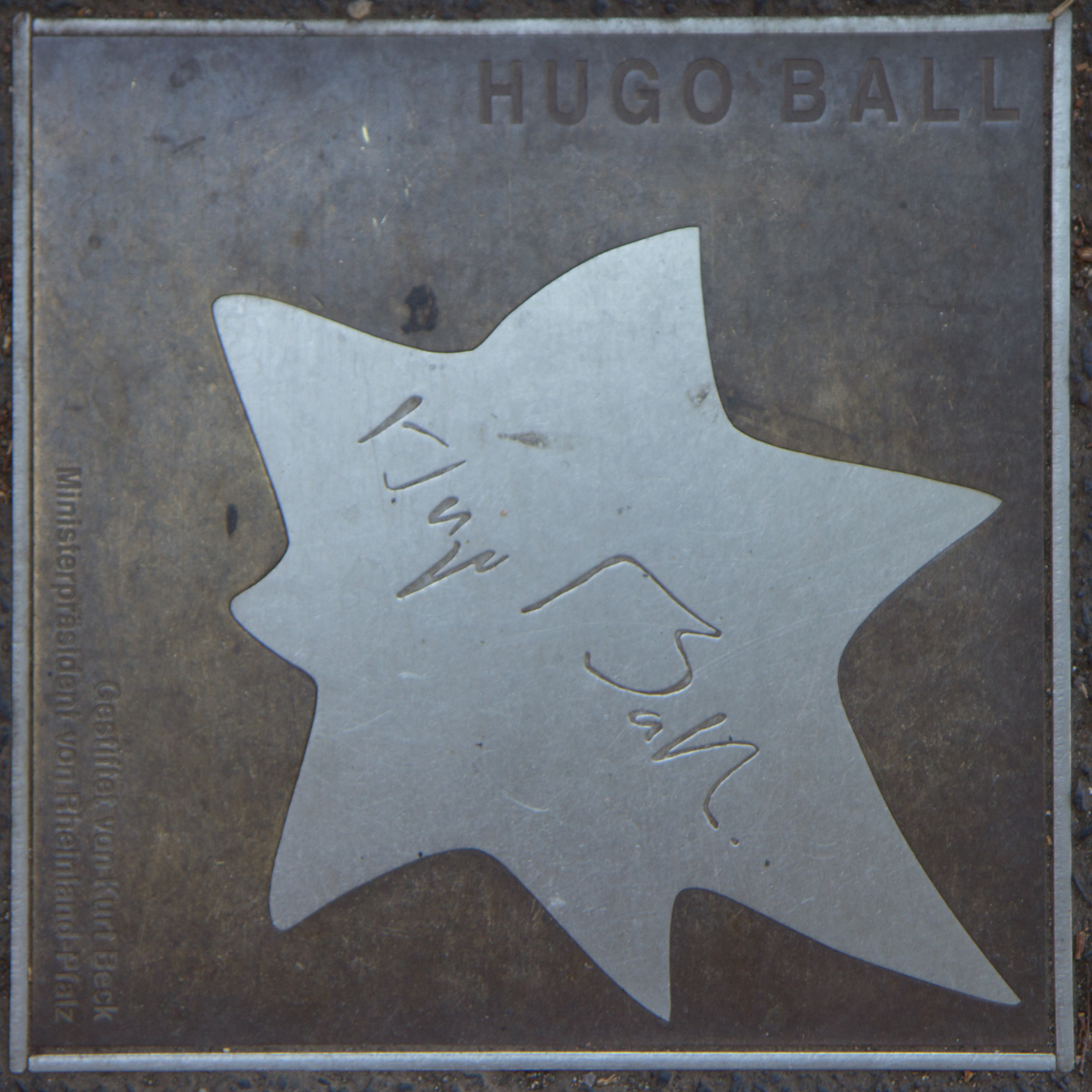 Walk of Fame of Cabaret: Hugo Ball